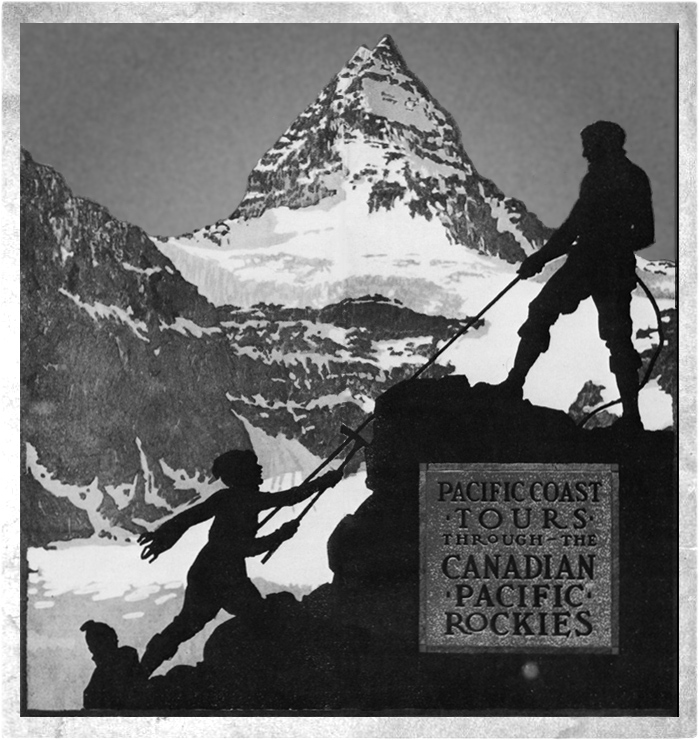 Canadian Pacific Railway brochure advertisement, depicting Banff's Mount Assiniboine. Date: c. 1917